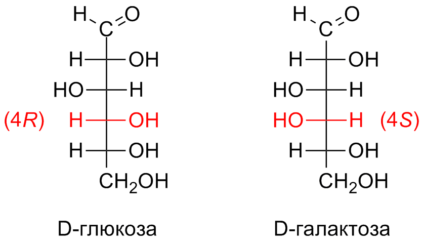 Diastereomers example